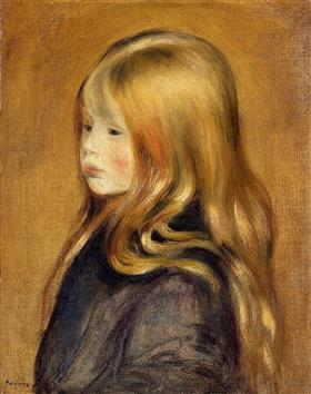 Work by Pierre-Auguste Renoir